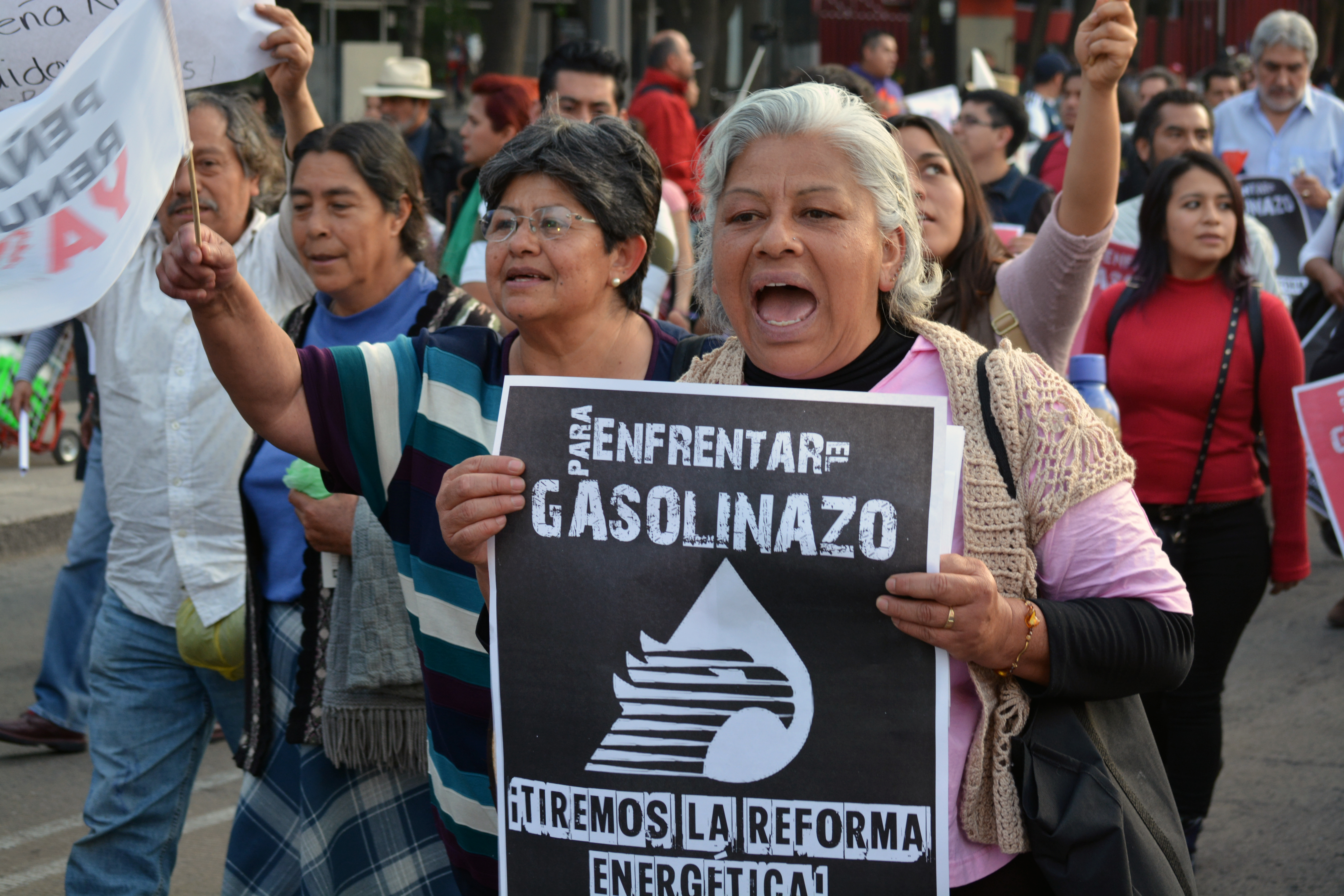 Women shouting. Protest against the 'gasolinazo,' rise of fuel prices in Mexico City. People demanding resignation of the president Enrique Peña Nieto.